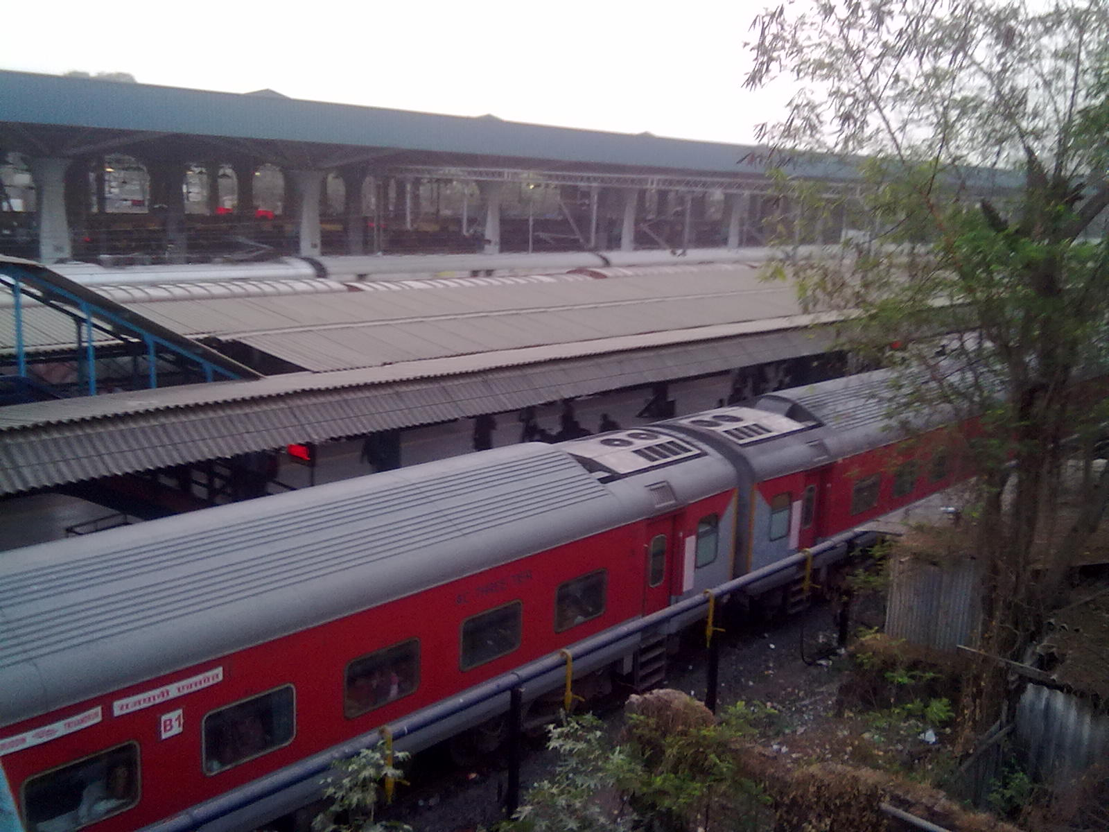 Trivandrum Rajdhani Express at Panvel Station